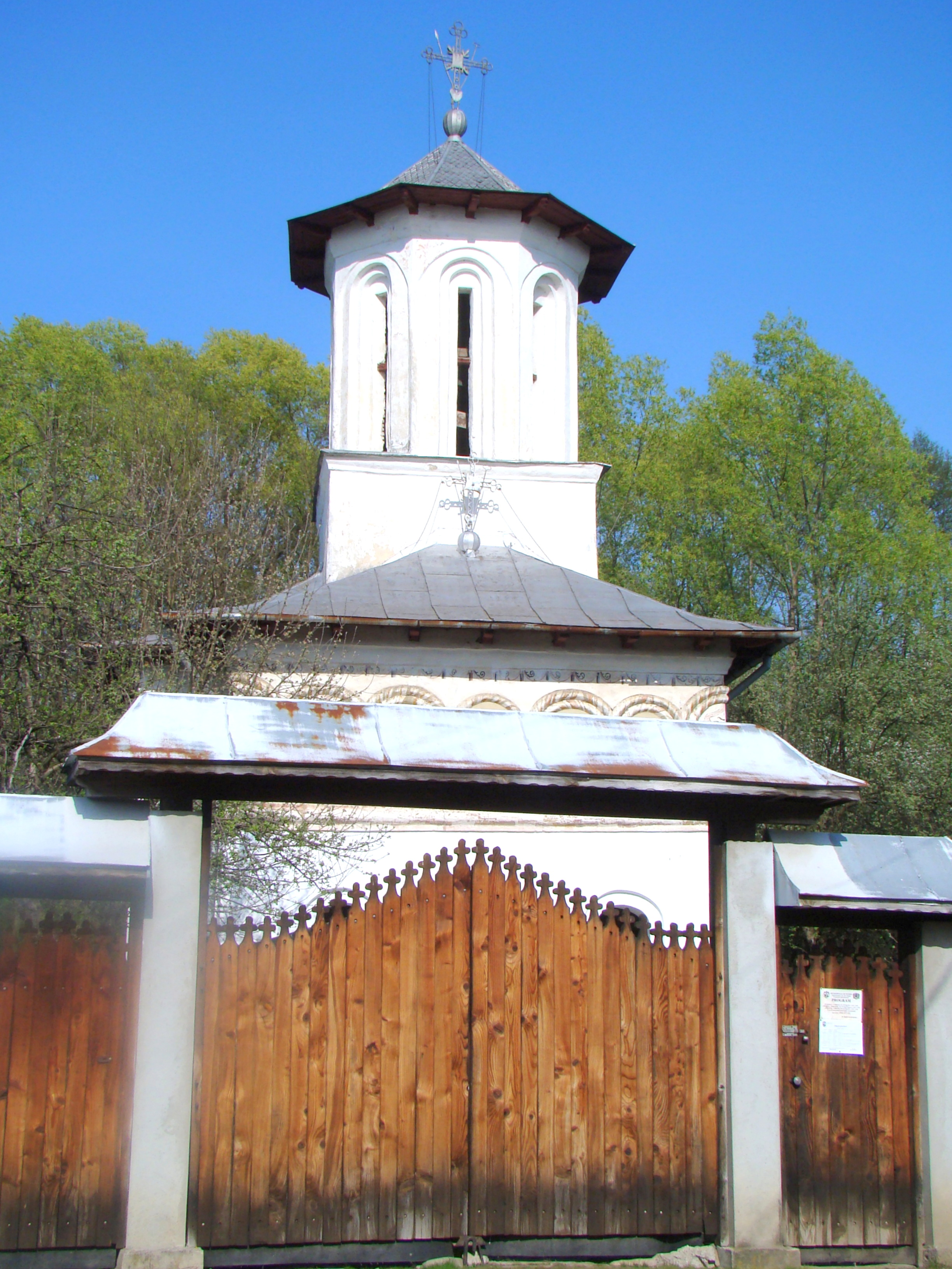 Saint Nicholas church in Brădiceni, Gorj county, Romania